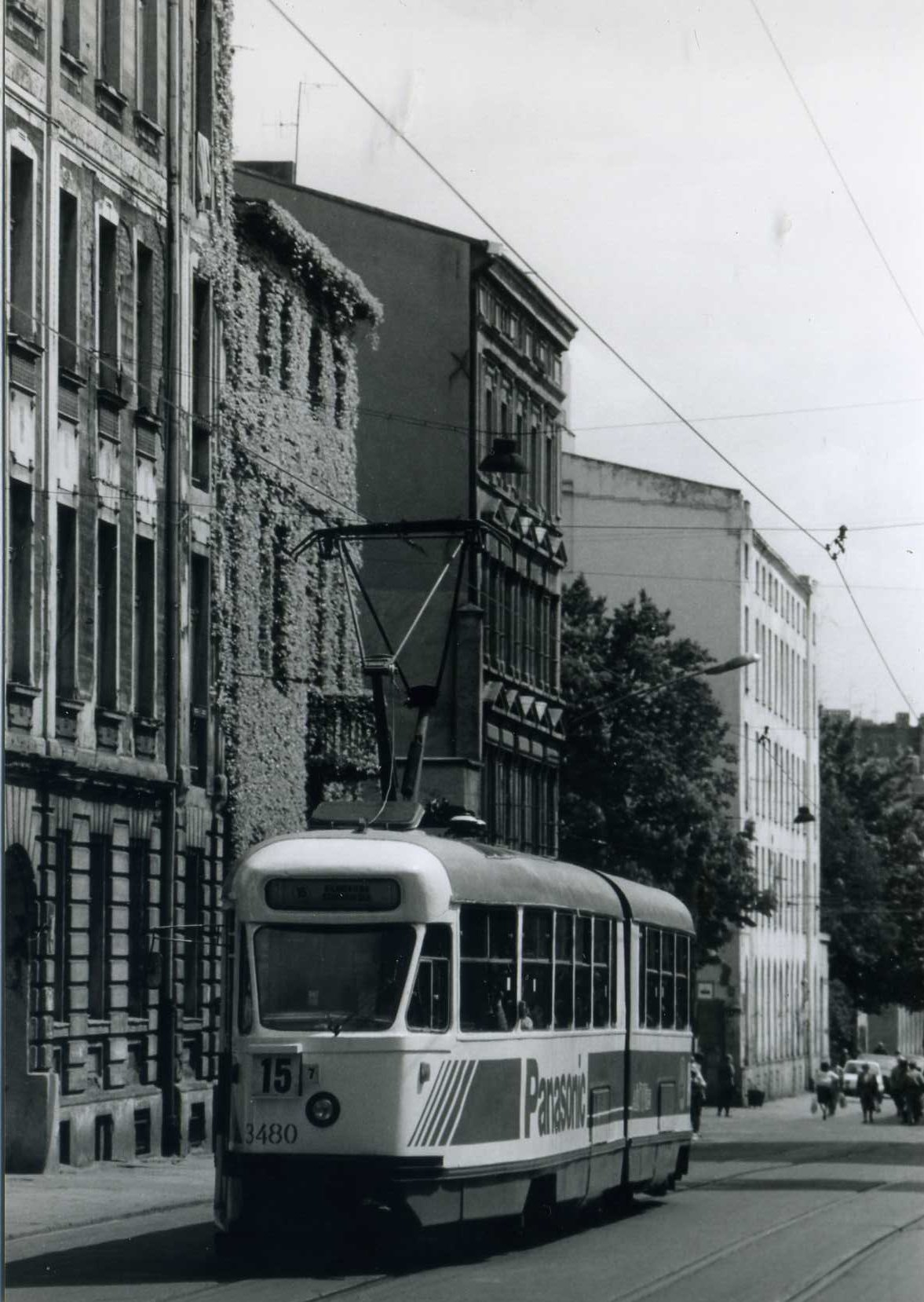 3480 was new in 1974 as 480. It was scrapped two years later in 1993. At the time of the Photograph, the was Chojny - Strykowska, becoming in 1992 Kurczaki - Strykowska